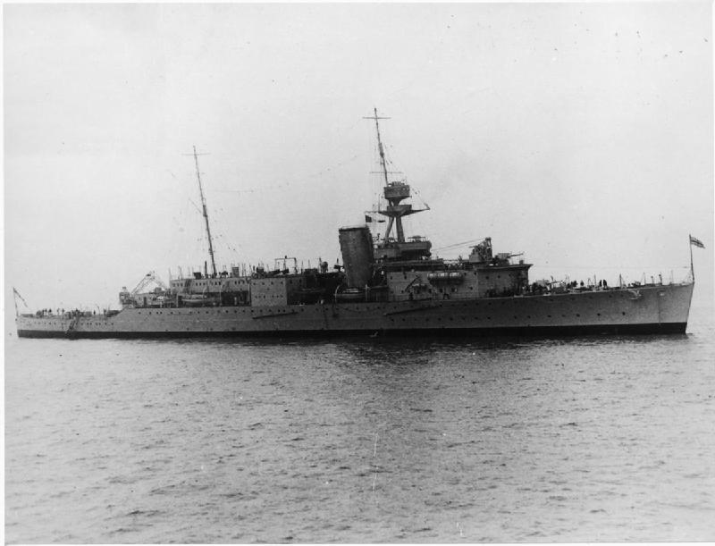 HMS VINDICTIVE demilitarised as Cadet Training Ship.